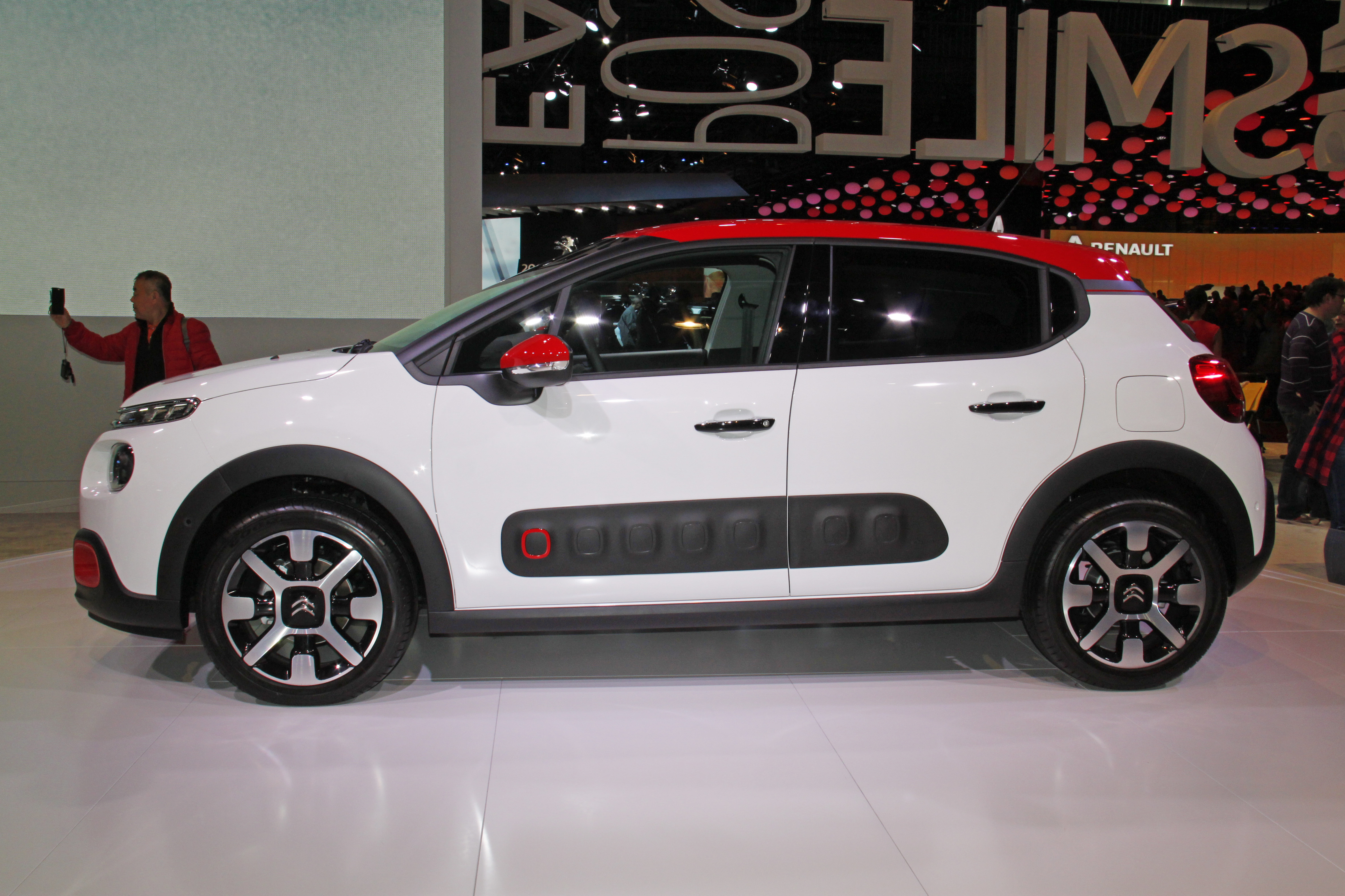 Citroën C3 (3rd gen.) at the 2016 Paris Motor Show